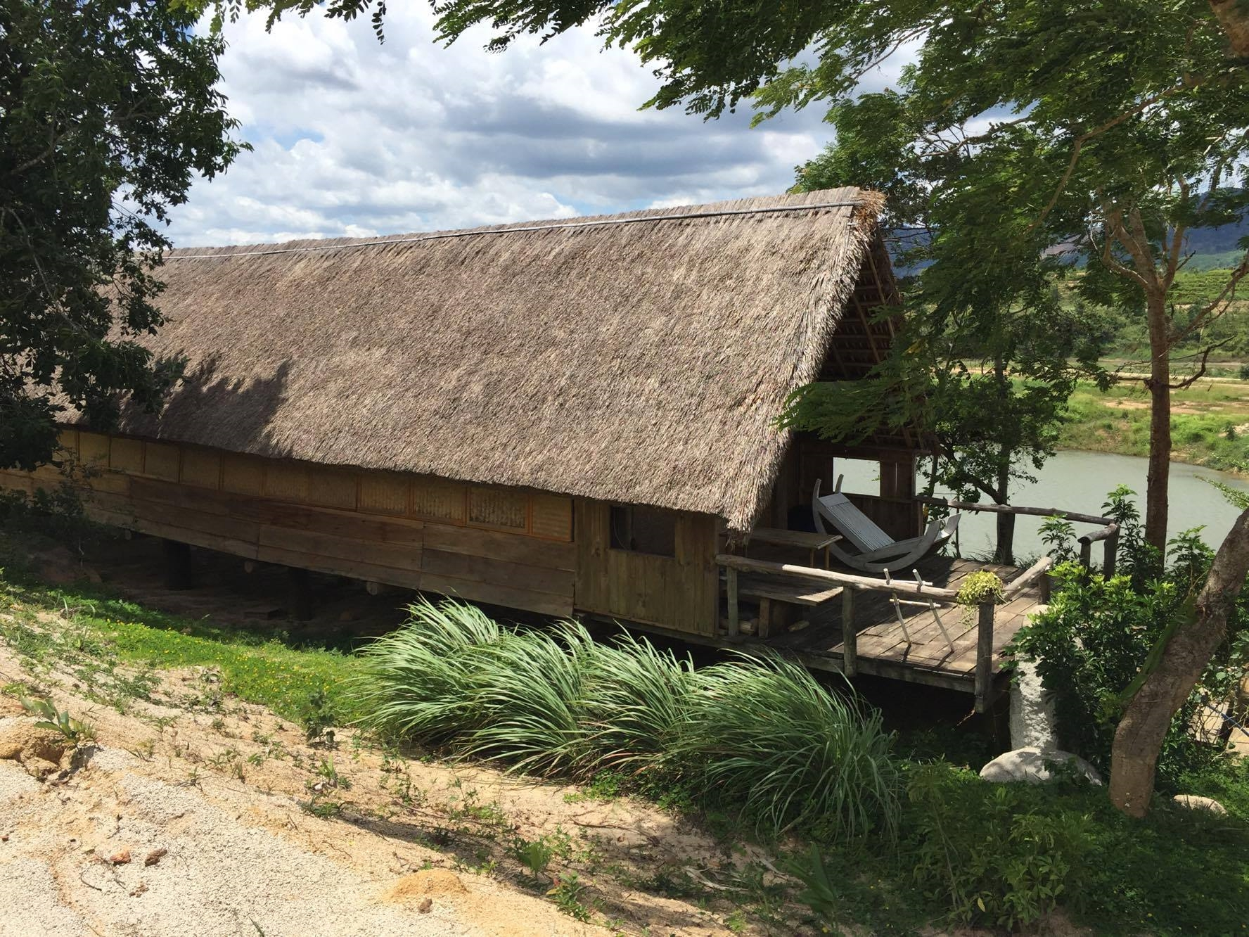 Kiến Trúc Nhà Sàn Tây Nguyên